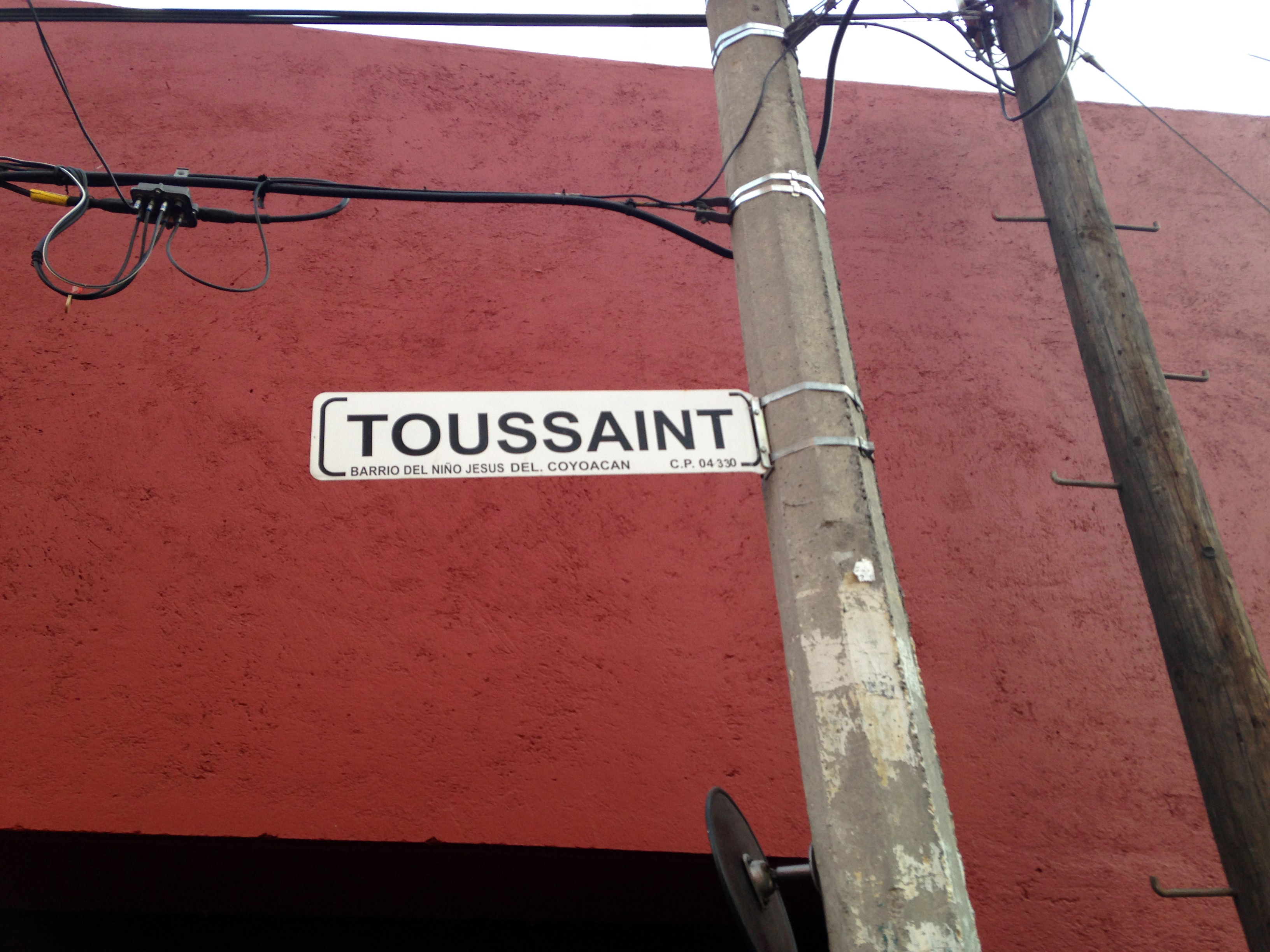 Street sign of the Manuel Toussaint street, Barrio Cuadrante San Francisco, Coyoacán, Mexico City